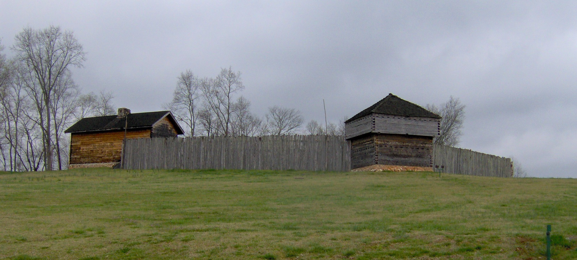 The partially-reconstructed Fort Southwest Point in Kingston, Tennessee, in the southeastern United States.